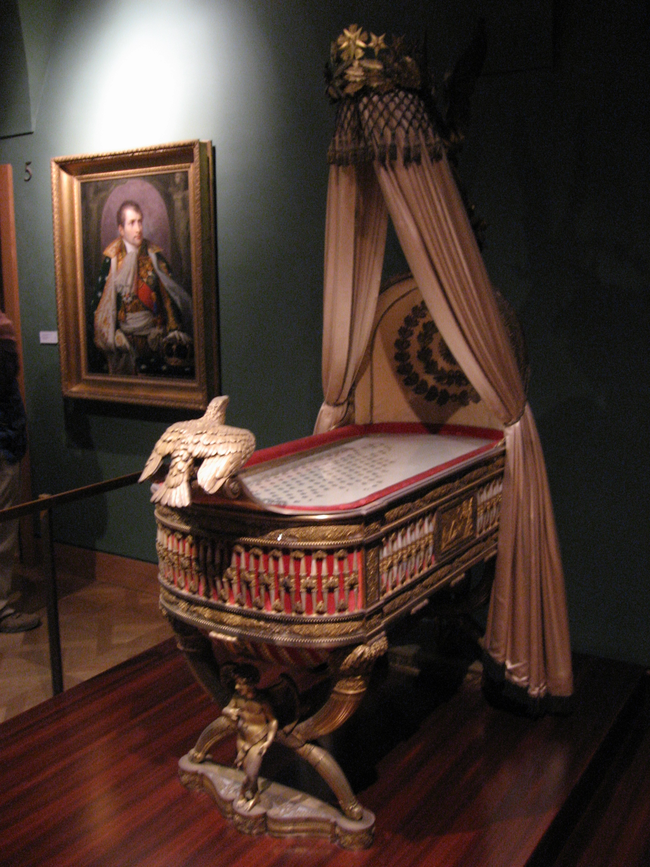 The Cradle of the King of Rome (later known as Napoleon II) Pierre-Paul Prudhon (1758-1813), Henri-Victor Roguier (1758-after 1830), Jean-Baptiste-Claude Odiot (1763-1850) and Pierre-Philippe Thomire (1751-1843) Paris, 1811 Silver-gilt, gold, mother-of-pearl, copper plates covered with velvet, silk and tulle with gold and silver embroidery; signed on two of the feet: Odiot et Thomire and Thomire et Odiot H 216 cm SK Inv. No. XIV 28